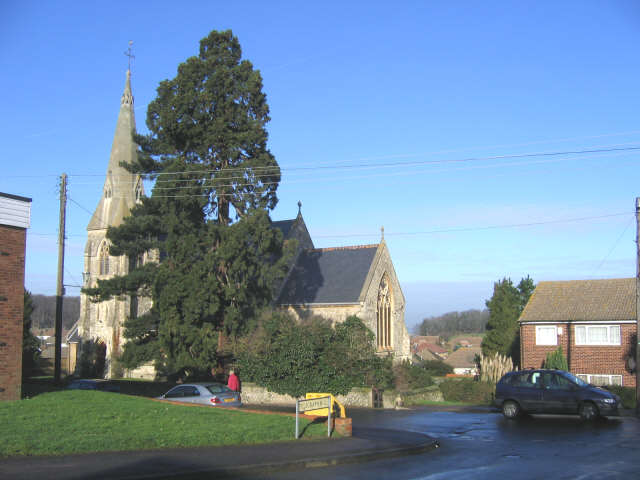 Parish church of St John the Evangelist, Hermitage Road, Higham Upshire, Kent, seen from the southeast from the junction with The Braes. St John's was built in 1862. Its mother church St Mary's was declared redundant in 1987.